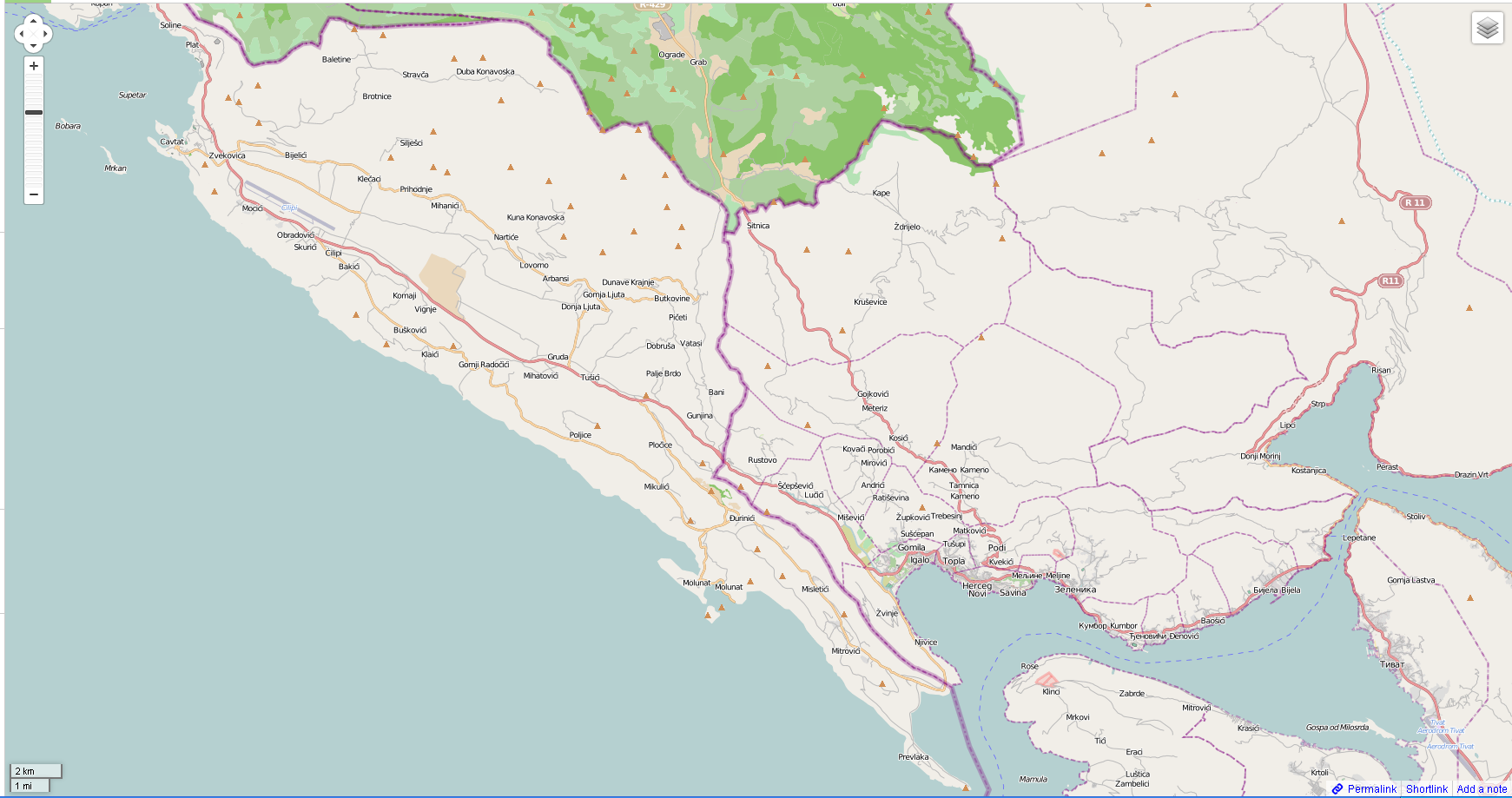 OpenStreetMap map of Konavle